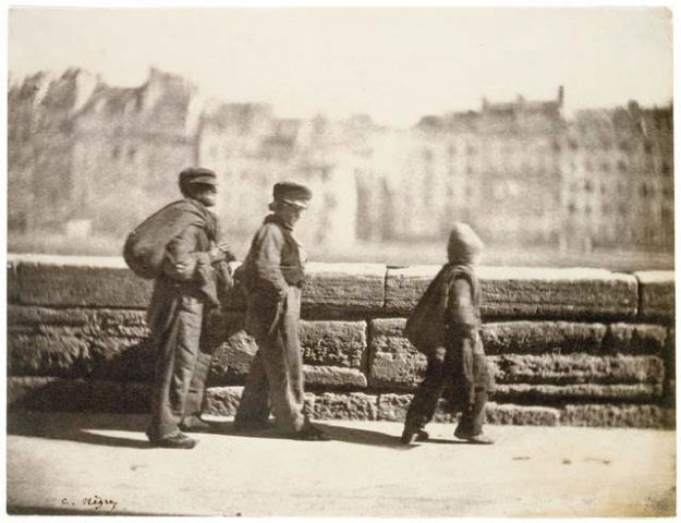 Ramoneurs